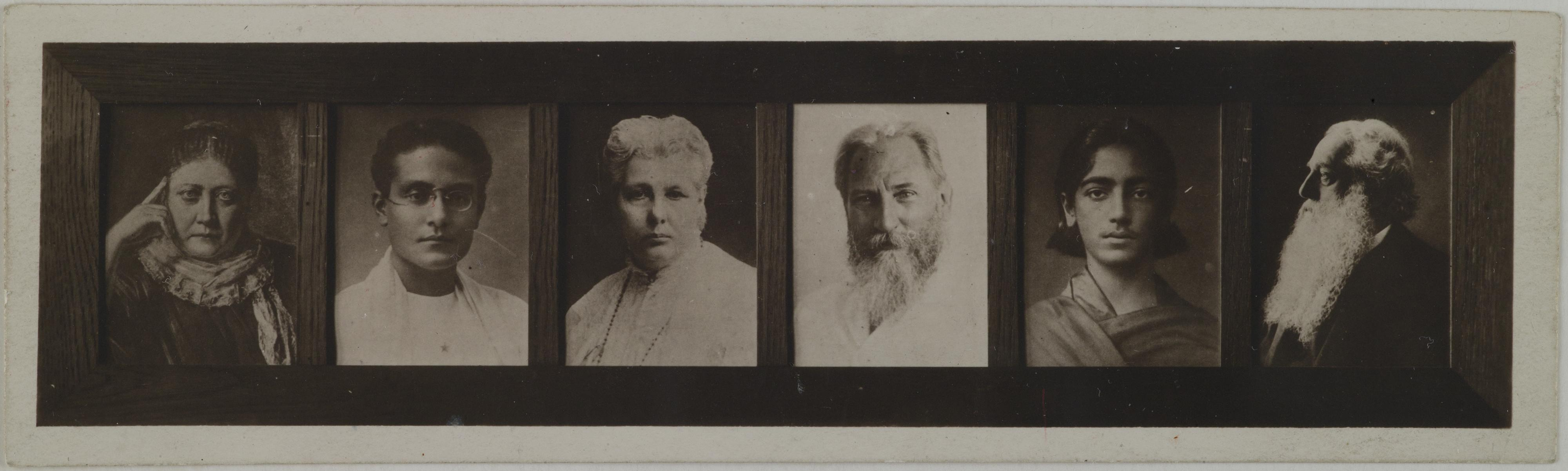 Kuusi muotokuvaa teosofeista, vasemmalta Helena Petrova Blavatsky, Curuppumullage Jinarajadasa, Annie Besant, Charles Webster Leadbeater, Jiddu Krishnamurti ja Henry Steel Olcott. kuvauspaikka: ajoitus: kuvaaja: jokaisen kuvan mitat: 21x29mm tekniikka: merkintöjä: inventointinumero: Kot. 3/130 kokoelma: Akseli Gallen-Kallelan valokuvakokoelma tutki lisää / explore further: Tiedätkö lisää tästä kuvasta? Kerro meille! Do you have information on this photo? Let us know!